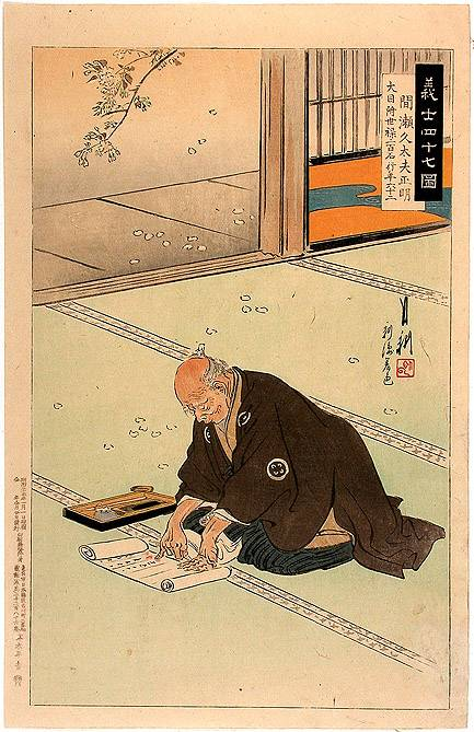 Ronin are masterless samurai. Chushingura is the true story of 47 samurai who became masterless in 1701, after their lord had been forced to commit ritual suicide (seppuku) for assaulting a court official who had insulted him. They avenged him by killing the court official after patiently planning for over a year. They were themselves then forced to commit seppuku.